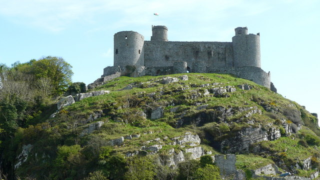 Harlech Castle Photographed from the Railway Station.